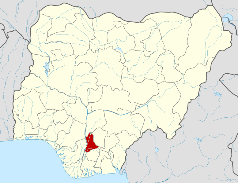 Map locator of Nigeria.